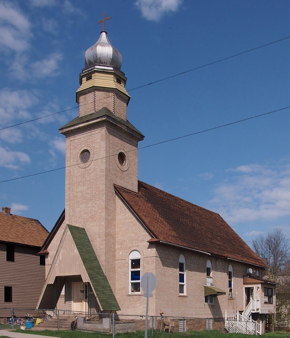 Saints Peter and Paul Church, 530 Central Avenue, Chisholm, Minnesota, USA. Viewed from the southwest.